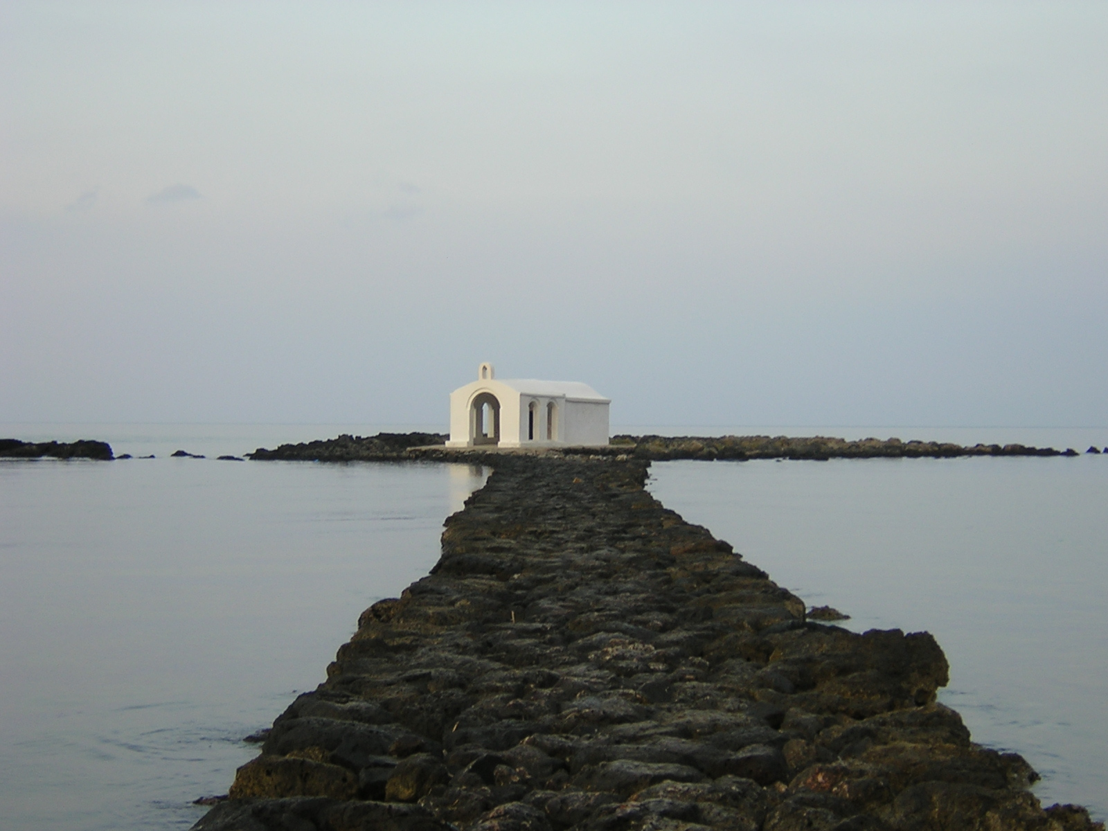 Chapel and islet of Agios Nikolaos, Georgioupoli, Crete, Greece